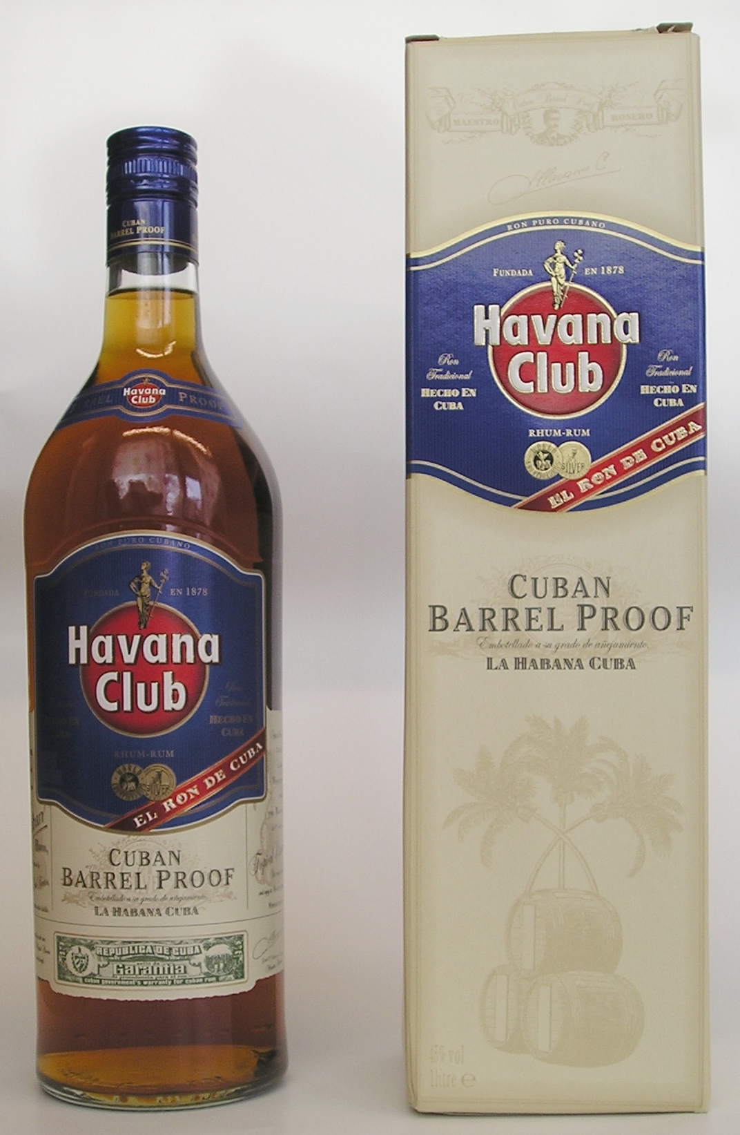 Bottle of Havana Club Rum